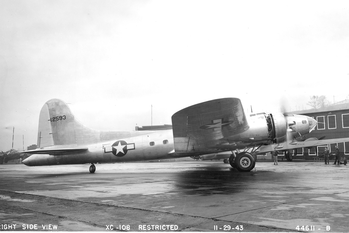 The first C-108 built (designated XC-108) was a B-17E (41-2593) converted to a V.I.P. transport for General Douglas MacArthur in 1943. With the exception of the nose and tail turrets, all armament was removed, as was all armor. The interior of the plane was made into a flying office for MacArthur, with extra windows, cooking facilities, and living space. To facilitate entry and exit, a drop-down door with steps was installed in the rear fuselage.